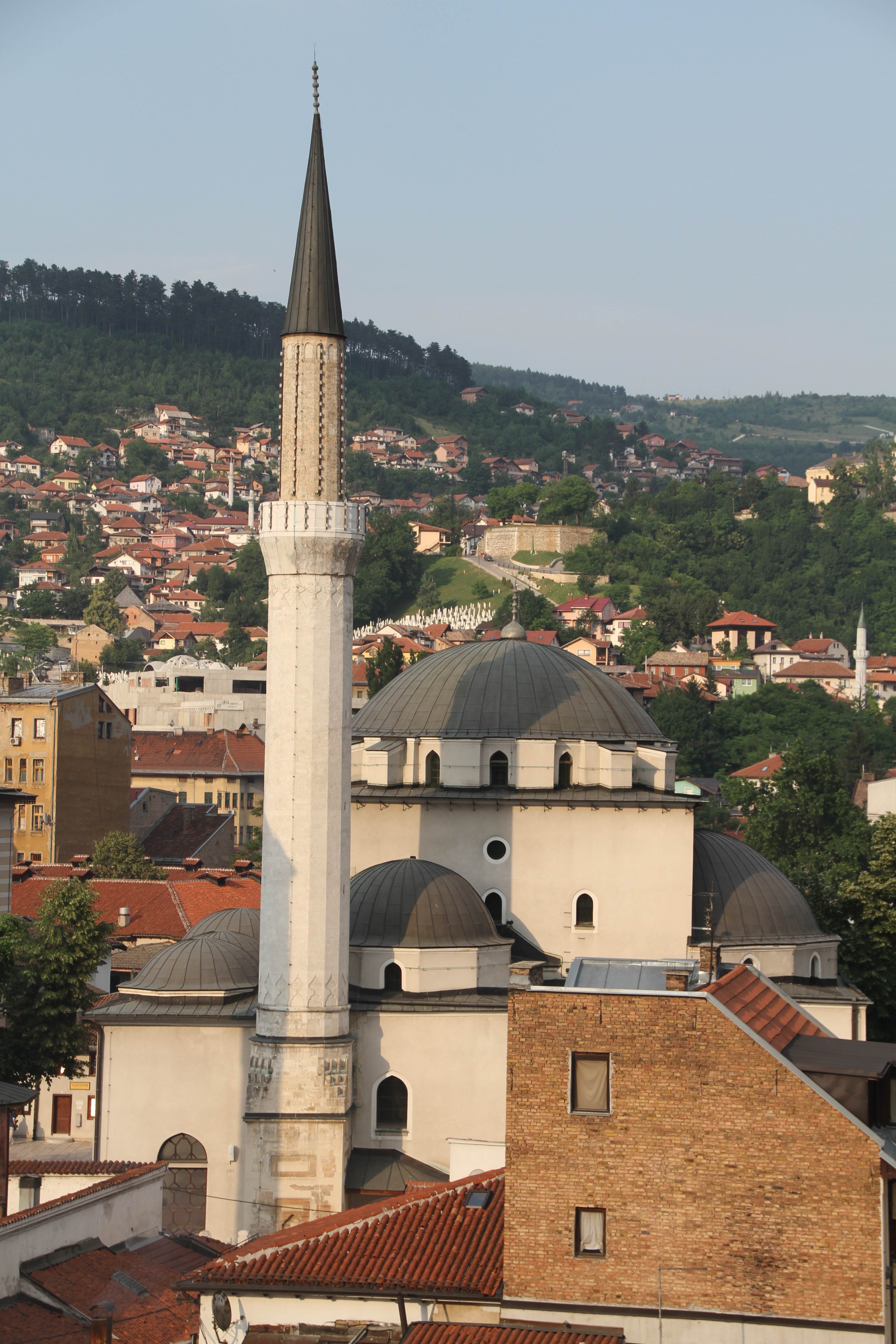 The Gazi Husrev-beg's Mosque of west-central downtown Sarajevo, Bosnia.